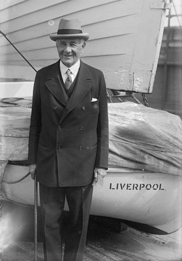 Admiral Sir Francis Charles Bridgeman Bridgeman (1848-1929)